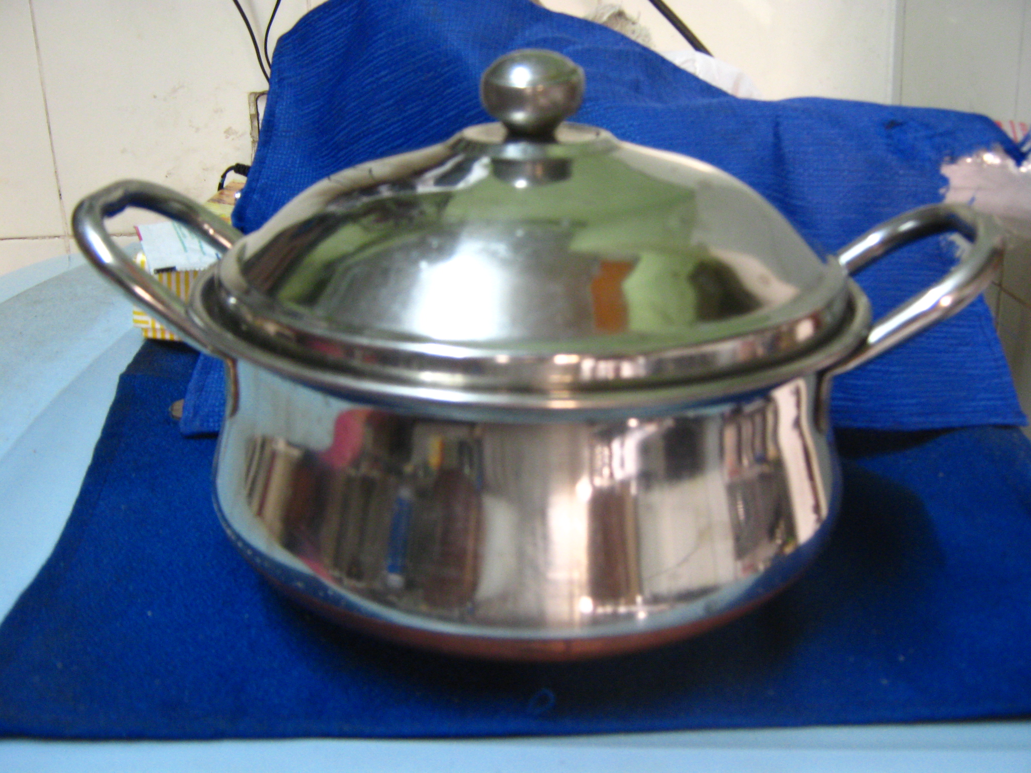 utensils used in Indian kitchen.